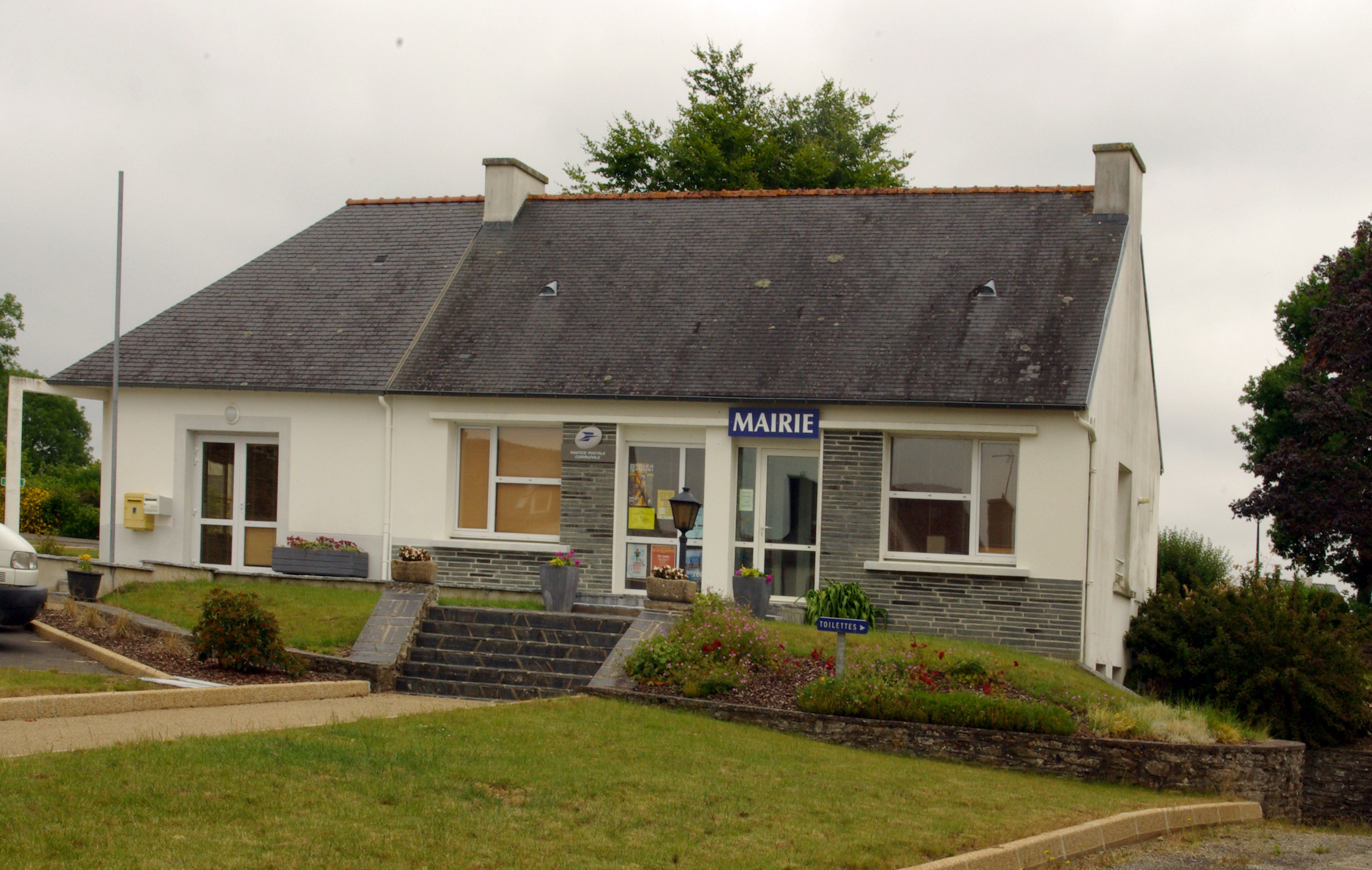 City Hall of Lennon